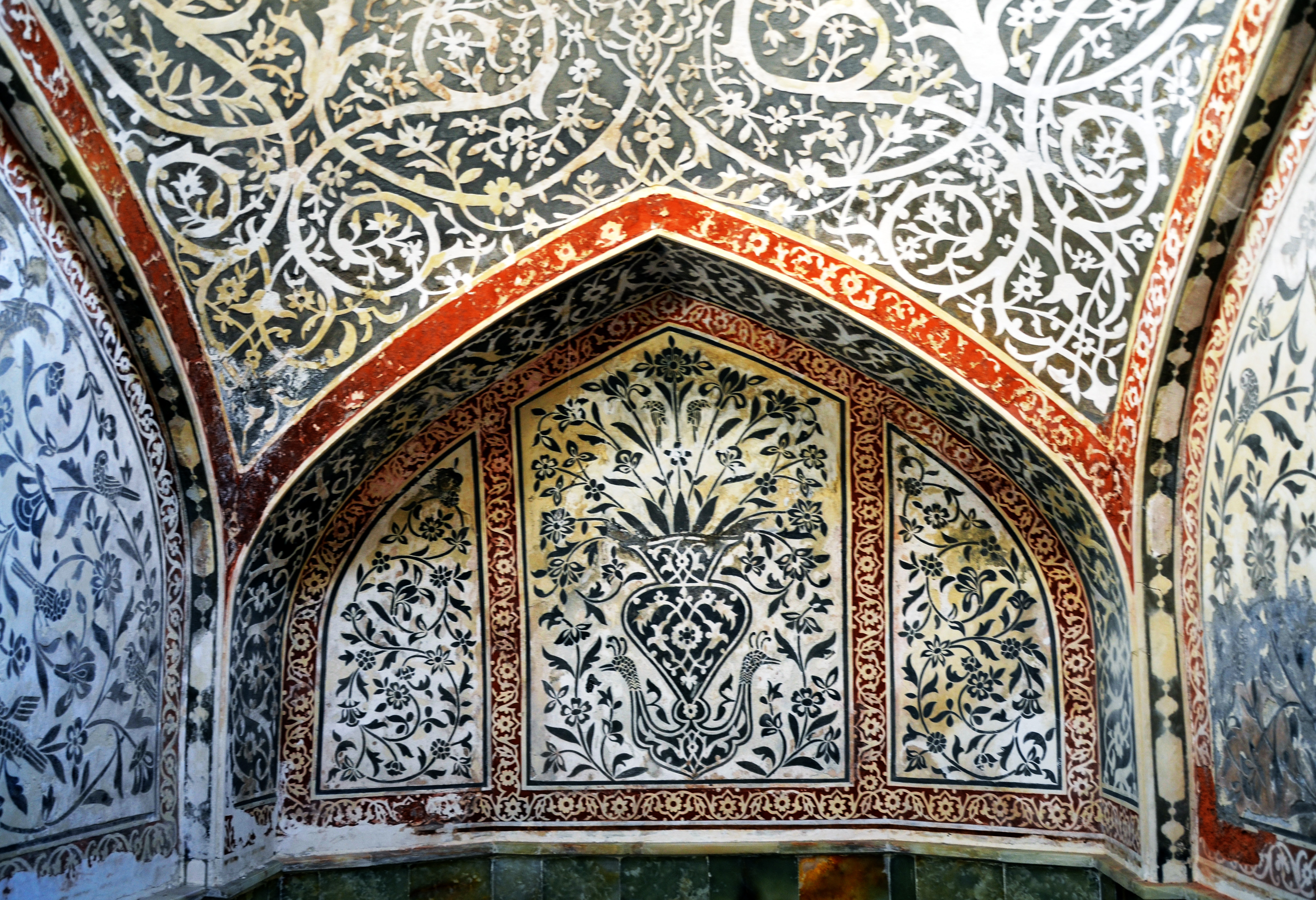 Kordasht old bath